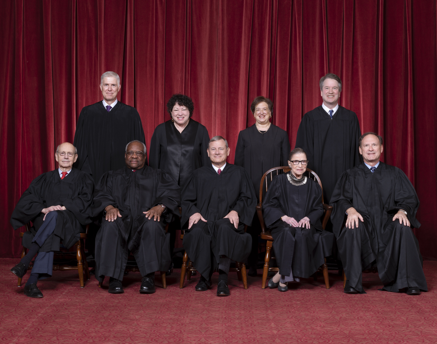 The Roberts Court, November 30, 2018. Seated, from left to right: Justices Stephen G. Breyer and Clarence Thomas, Chief Justice John G. Roberts, Jr., and Justices Ruth Bader Ginsburg and Samuel A. Alito. Standing, from left to right: Justices Neil M. Gorsuch, Sonia Sotomayor, Elena Kagan, and Brett M. Kavanaugh. Photograph by Fred Schilling, Supreme Court Curator's Office.